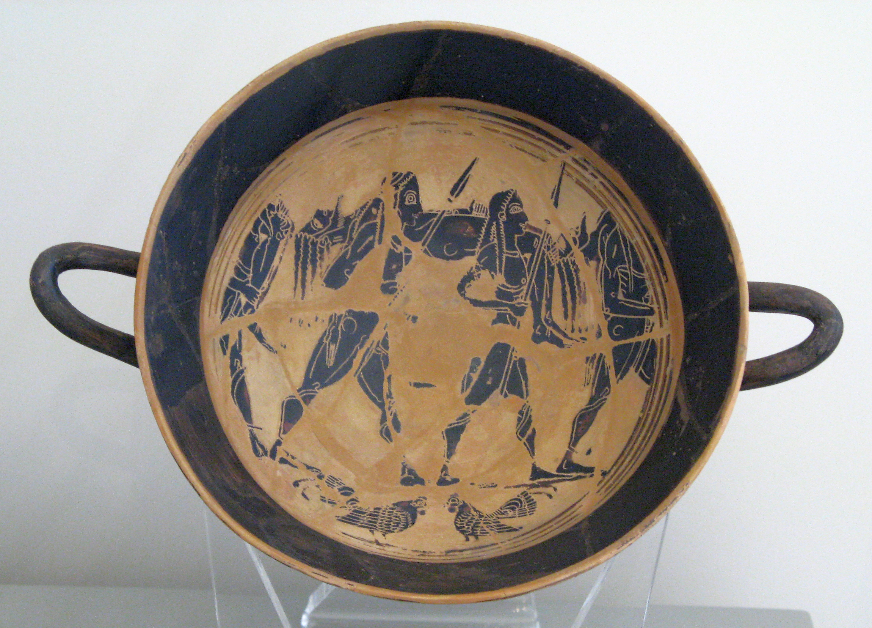 Carrieng dead soldiers, depicted on a laconian cup, c. 560/50 B.C., found at Tarquinia.